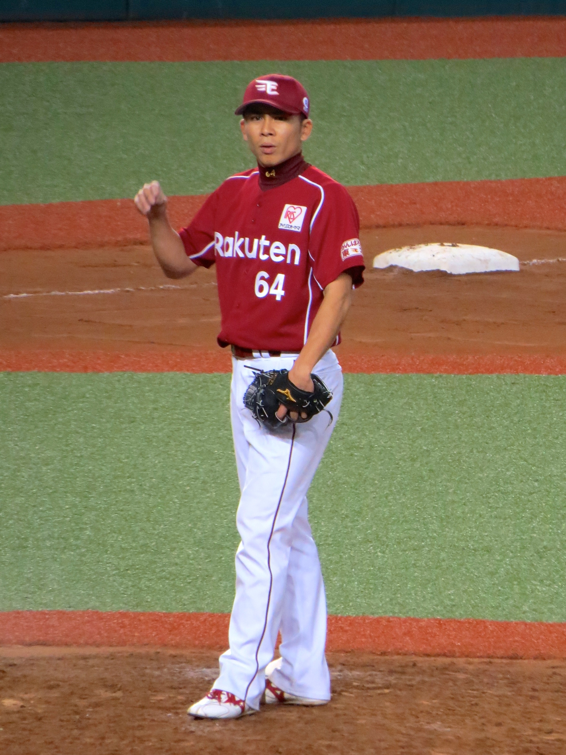 Hiroyuki Fukuyama, pitcher of the Tohoku Rakuten Golden Eagles, at Seibu Dome